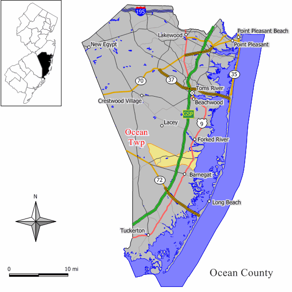 Source: Jim Irwin Original work by Jim Irwin, December 2005.